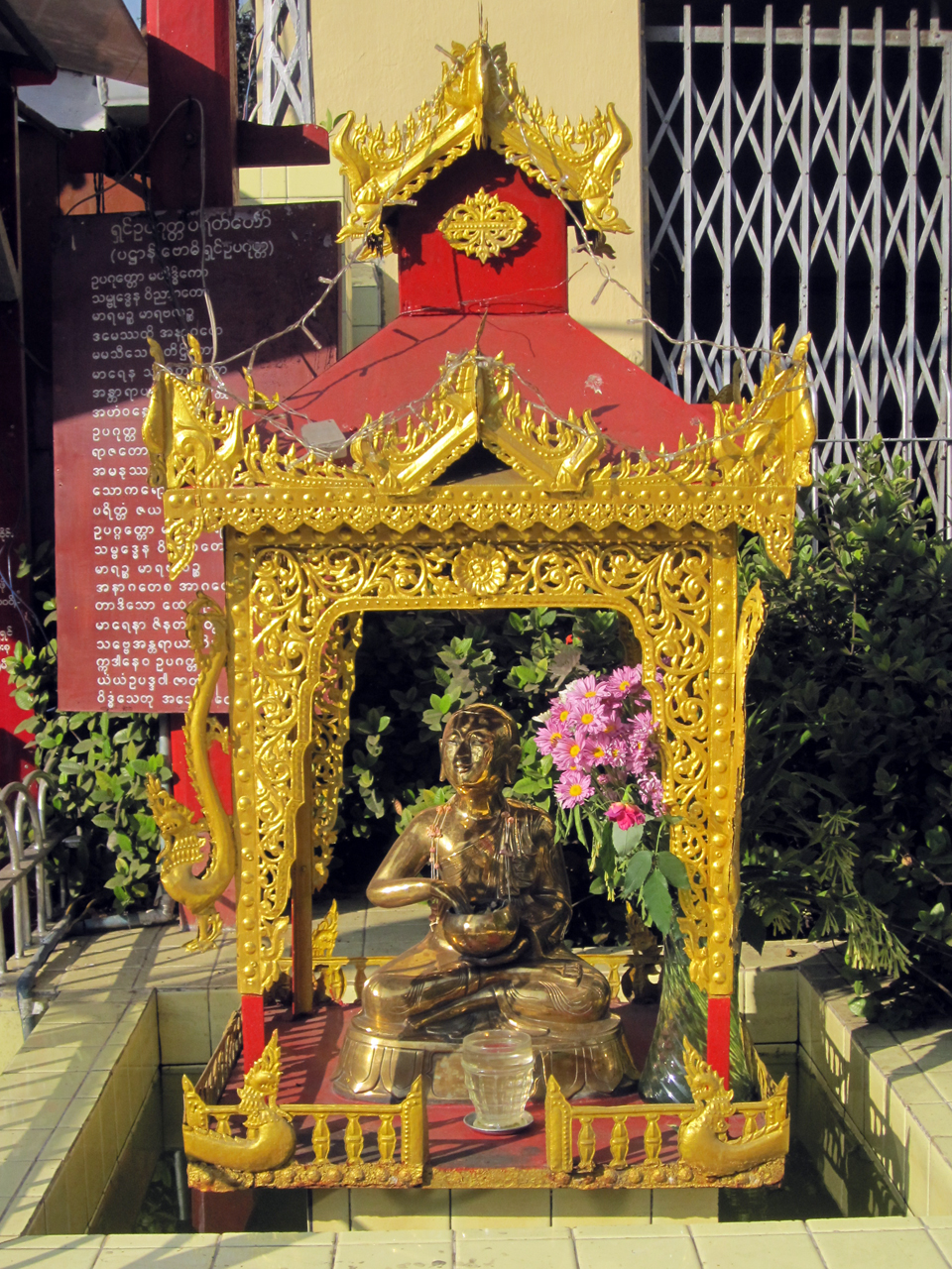 Shin Upagutta (Shin Upagot) roadside shrine on Anawrahta Road (near Shwe Bazun) in Lanmadaw Township, Yangonမြန်မာဘာသာ: ရန်ကုန်မြို့ရှိ လမ်းမတော်မြို့နယ် လမ်းဘေးရှင်ဥပဂုတ်ရုပ်တု